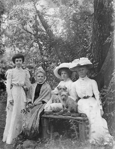 Ellis Rowan (c1847-1922) with her mother Marian Ryan, and sisters Mabel and Blanche Ryan in the garden at Derriweit Heights, Mount Macedon